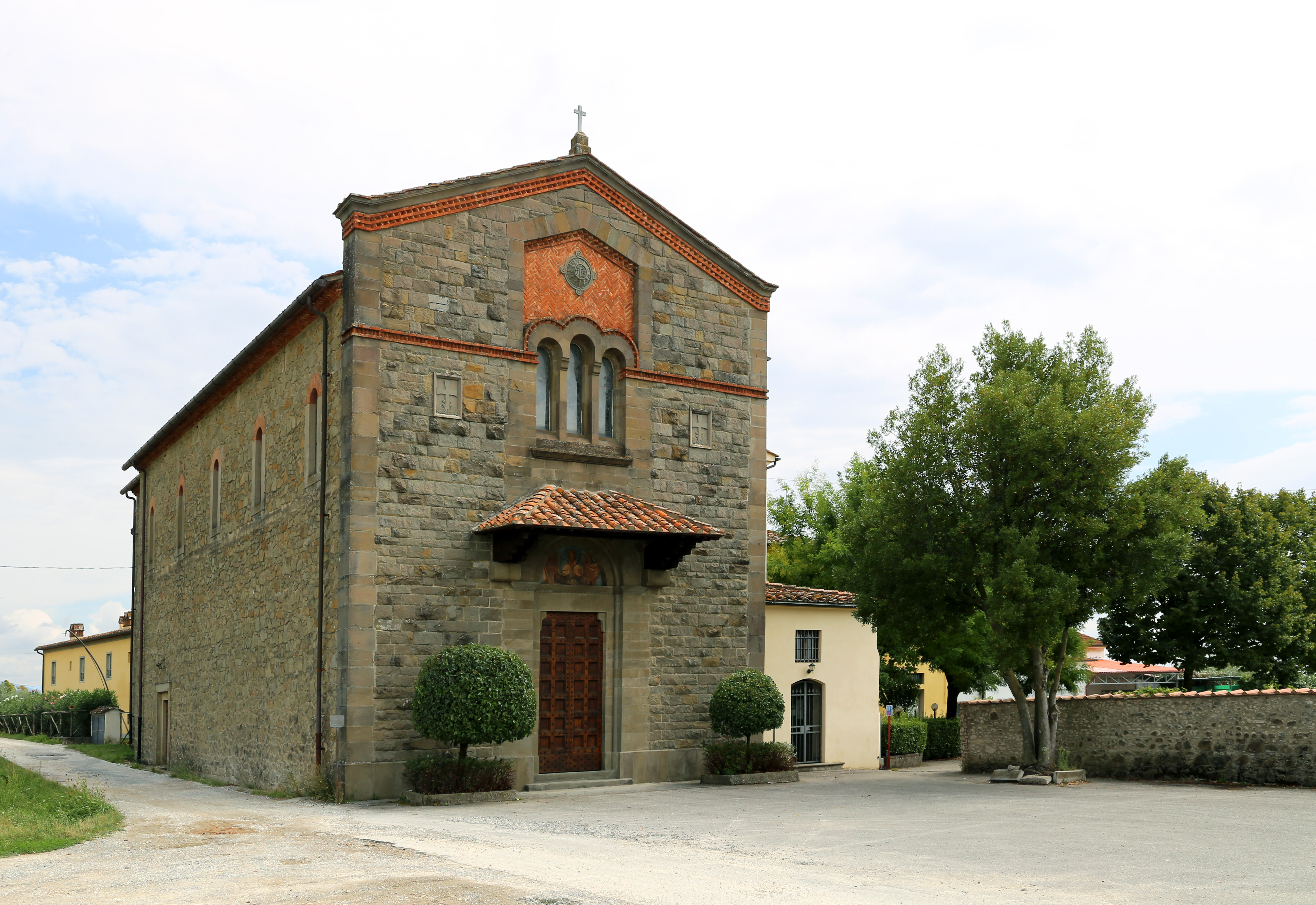 San Rocco (Pistoia)